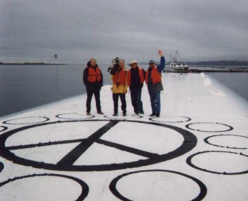 Spragg Bag with television camera crew on top